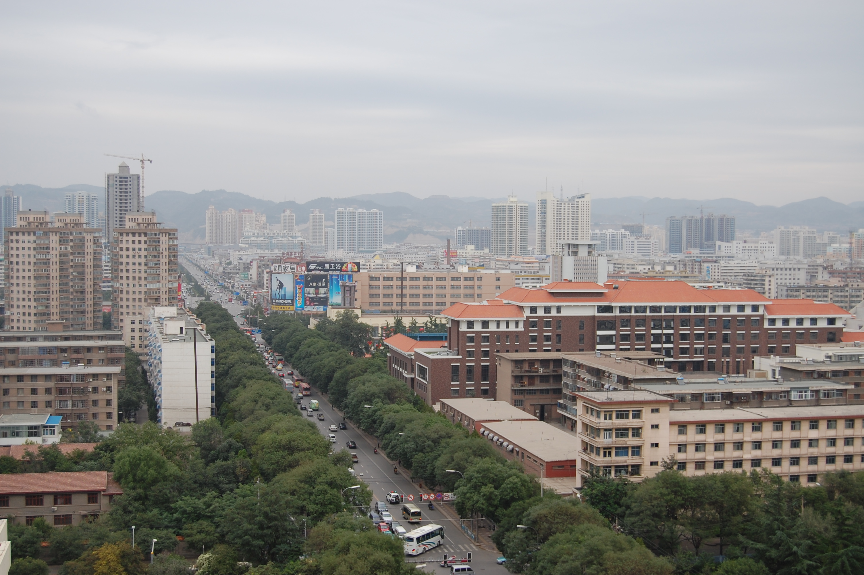 View to Lanzhou